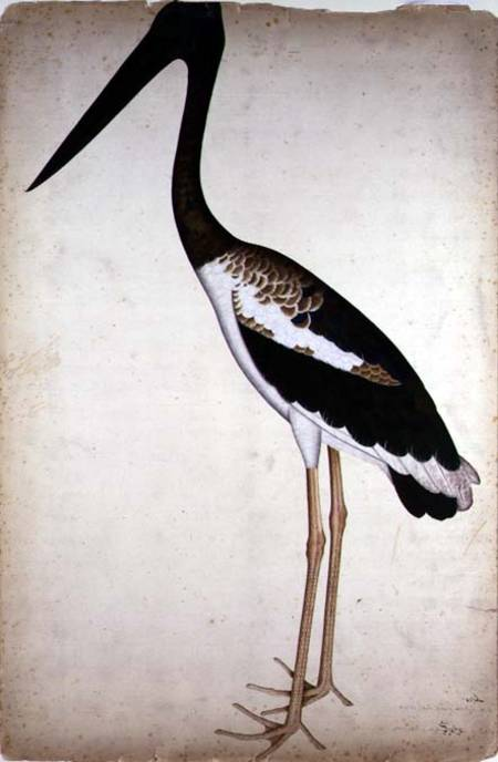 Painting of a sub-adult Ephippiorhynchus asiaticus by Sheikh Zayn al-Din around 1781